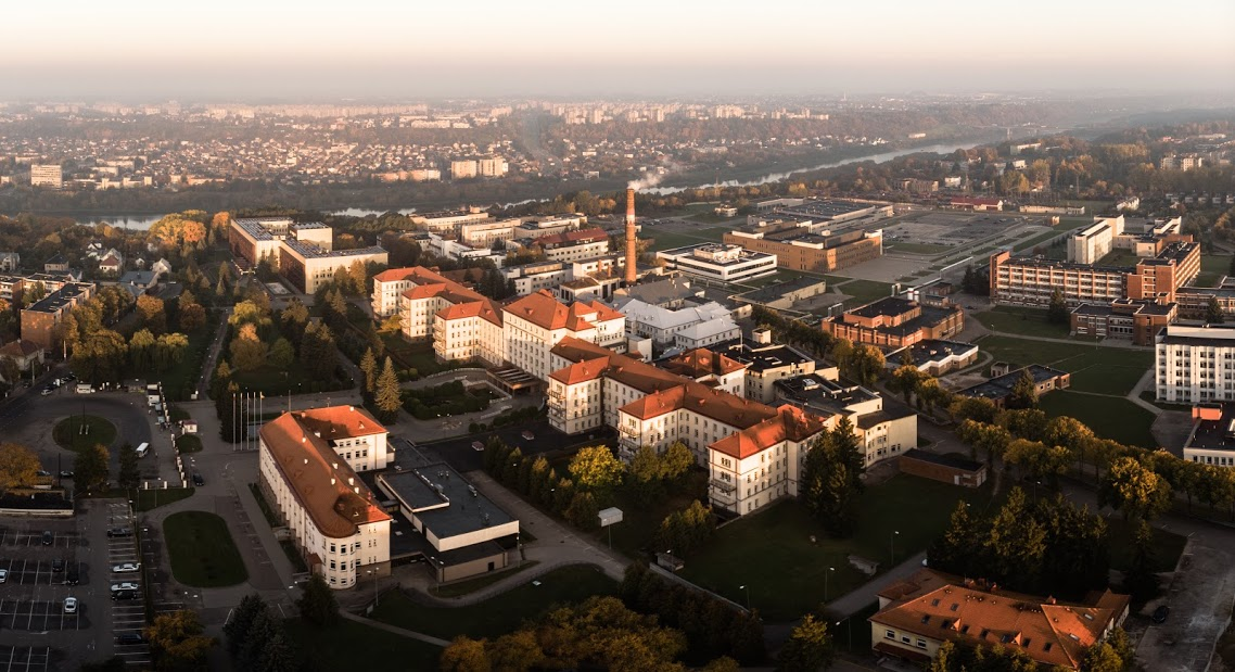 Bird's-eye view of Kaunas Clinics. Photo taken by Tadas Didvalis, uploaded with permission.